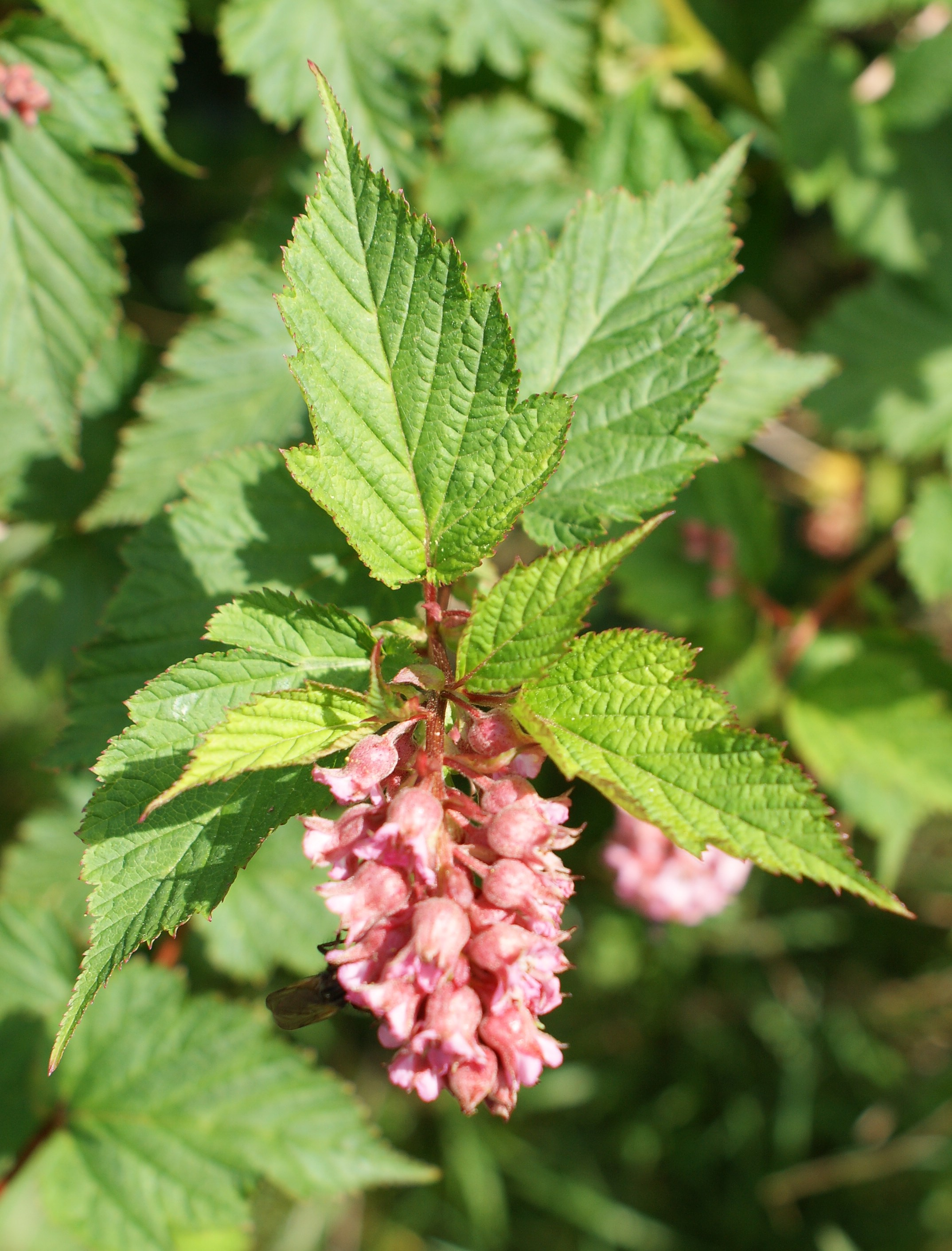 Neillia affinis. Glinna Arboretum near Szczecin (NW Poland)